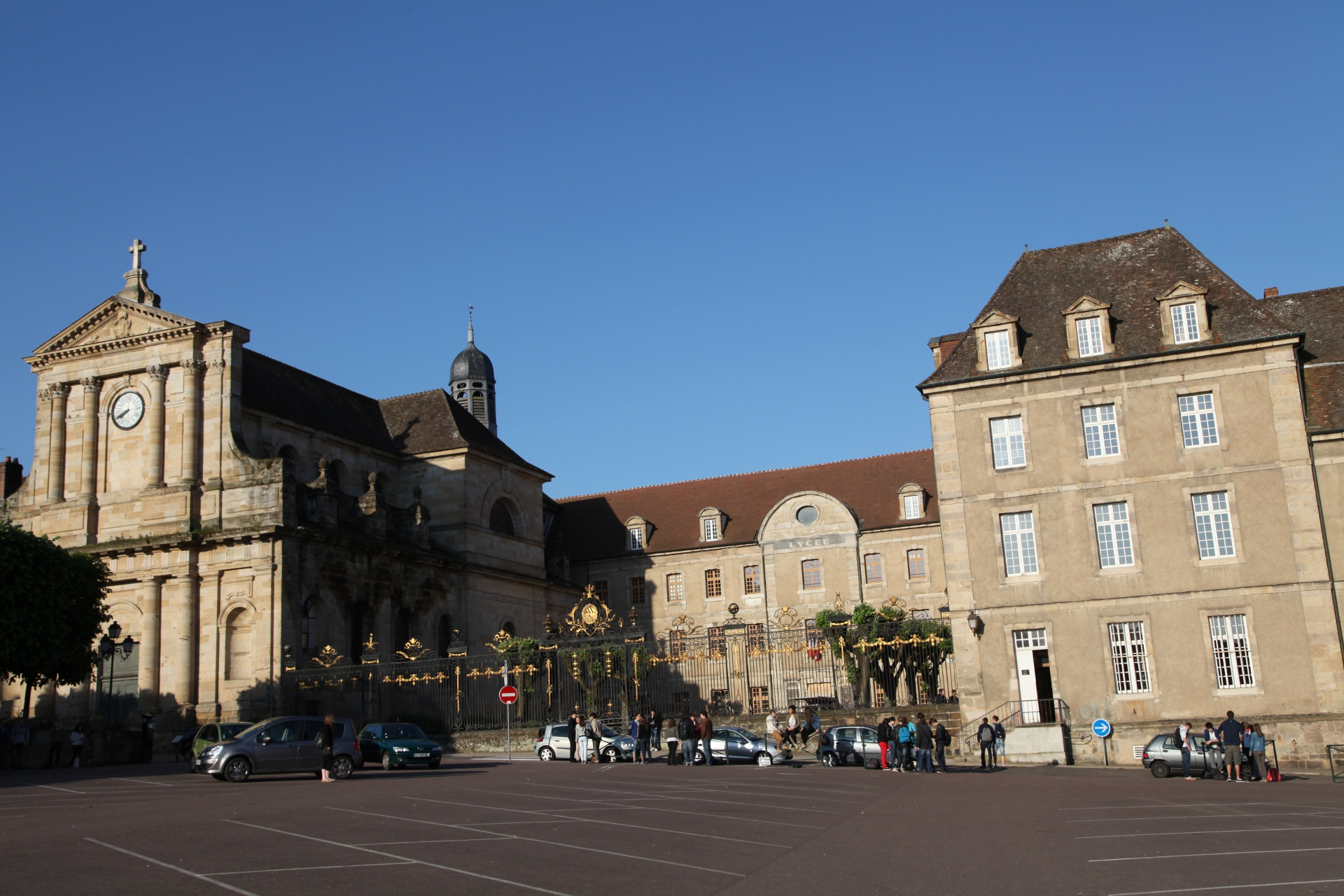 Lycée (High school) Bonaparte Autun Burgundy France